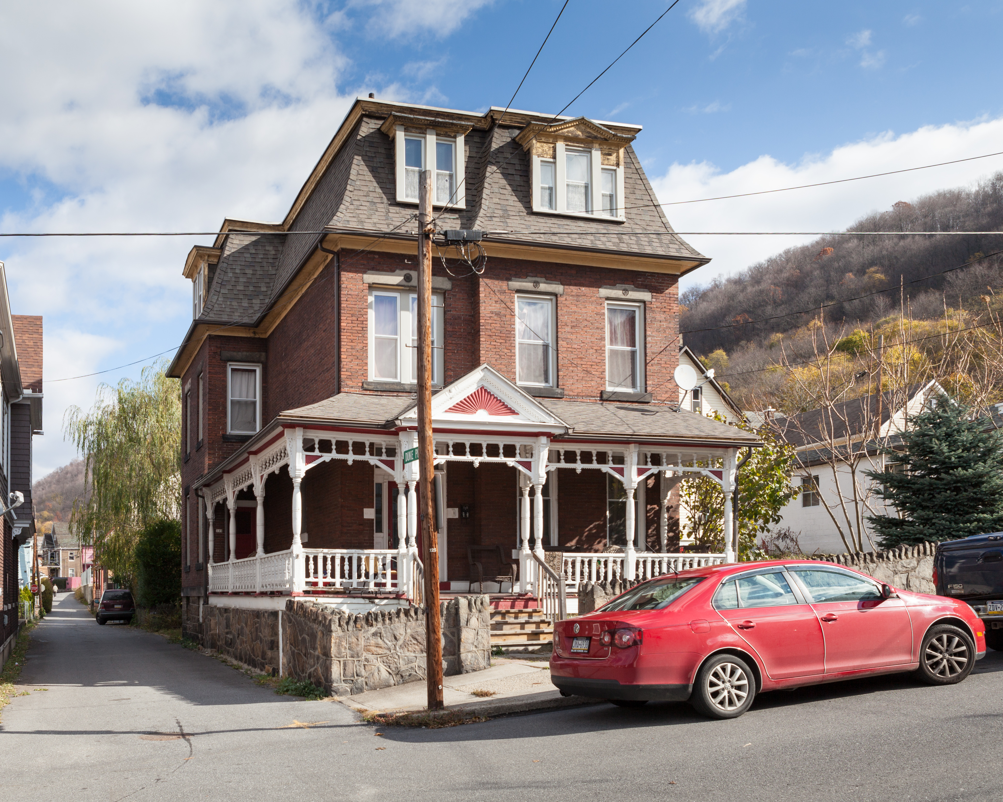 The 1870 Second Empire style W.H. Smith residence at 125 Singer St, Johnstown, Pennsylvania in the Old Conemaugh Borough Historic District.